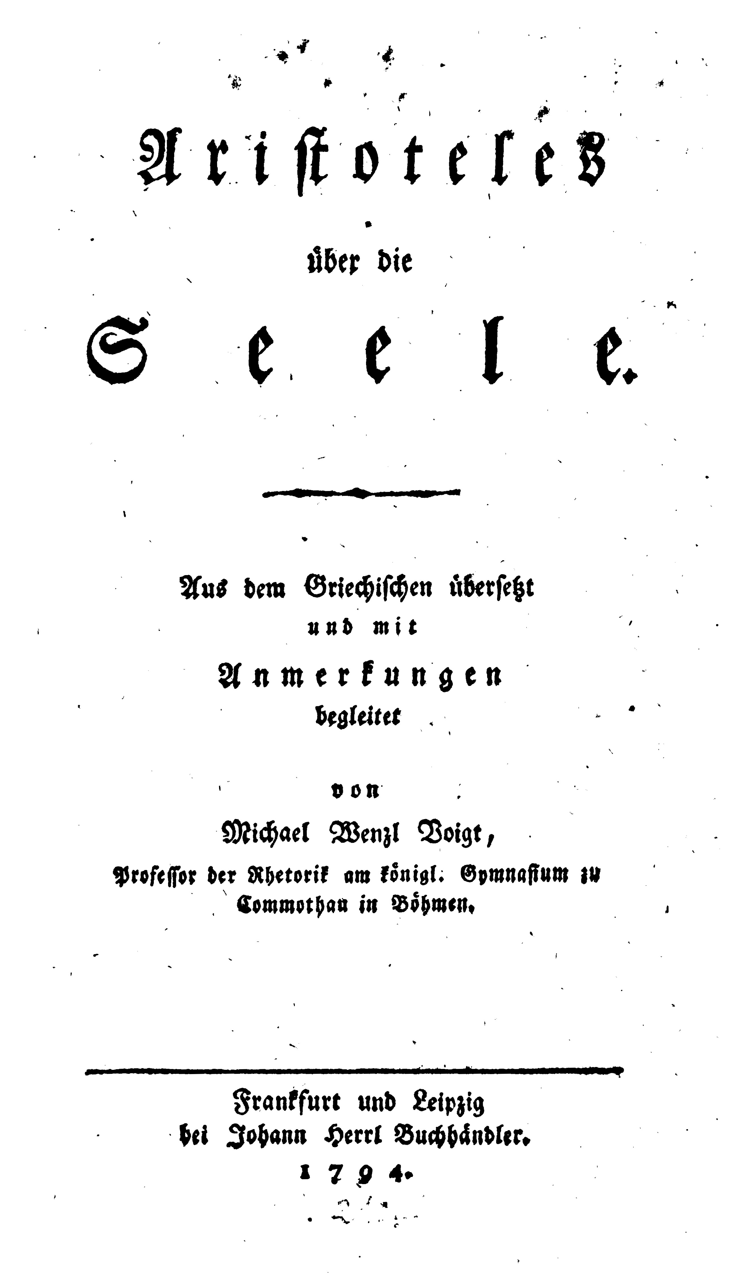 V.M.Voigt. Aristoteles uber vie Seele